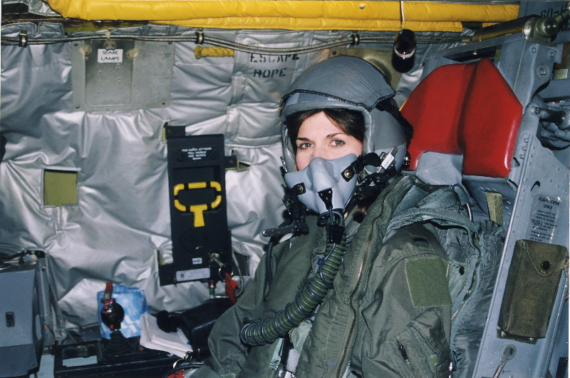 Journalist Sharyl Attkisson on a U.S. Air Force bombing mission over Kosovo as one of the first journalists to fly on a B-52 combat mission.